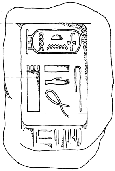 Gray granite slab from Elephantine, bearing Huni's cartouche